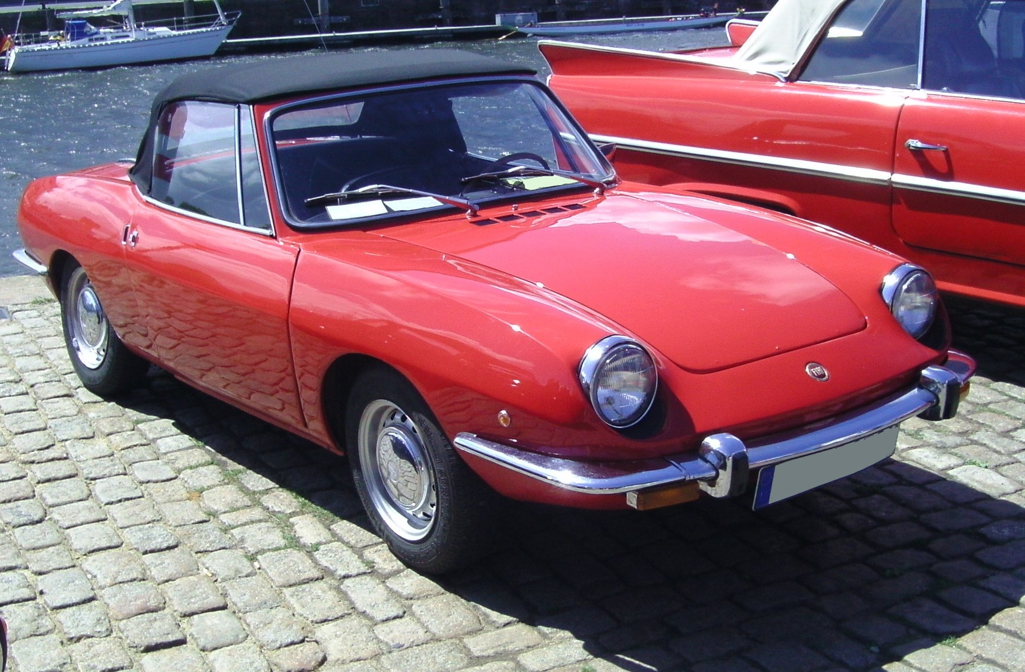 A Fiat 850 Sport Spider